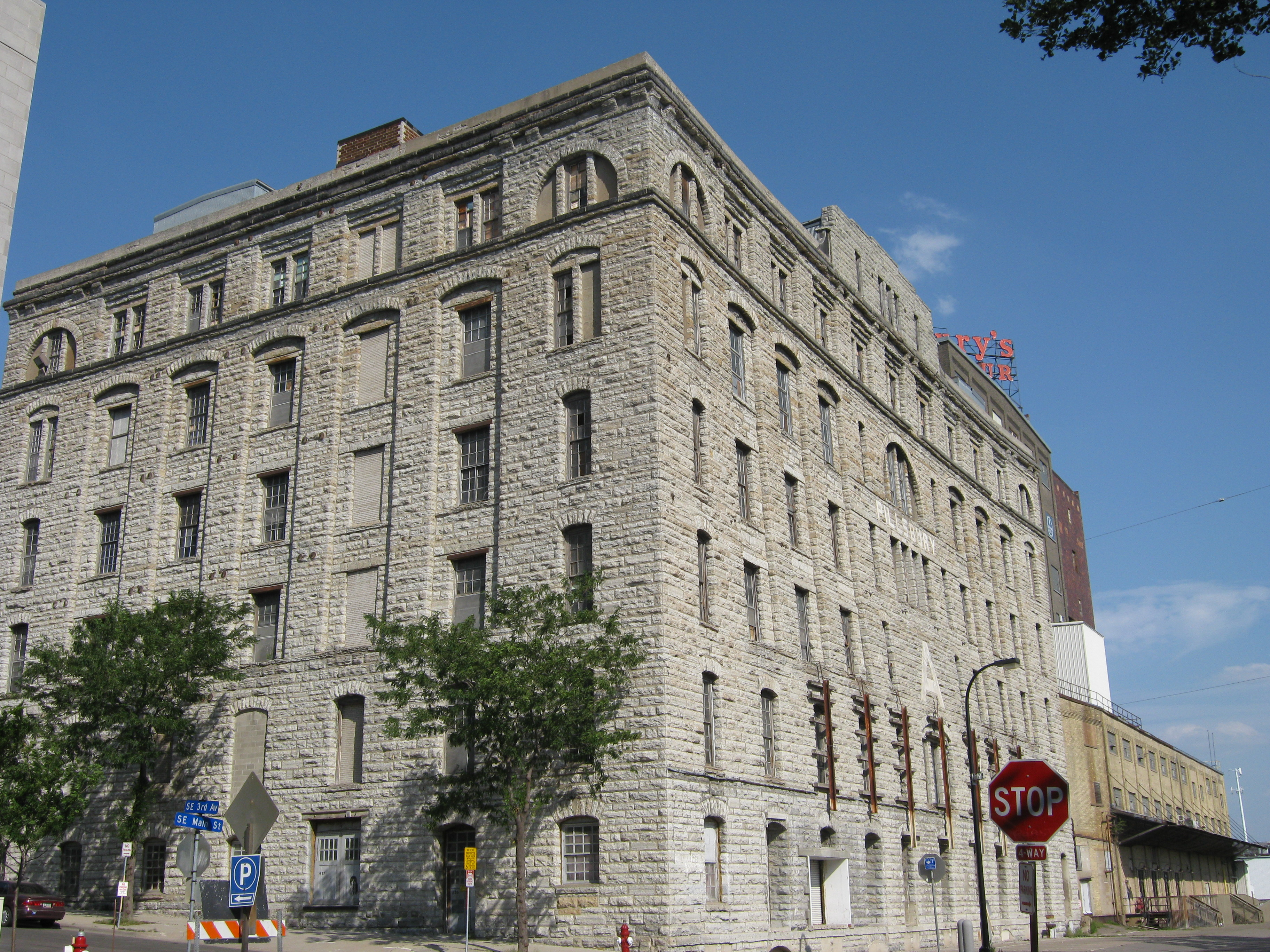 The Pillsbury "A" Mill in Minneapolis, Minnesota.